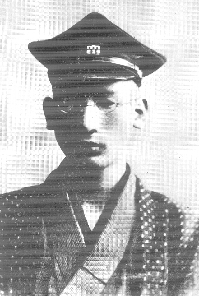 Chōkō Ikuta (1882-1936) was a Japanese writer.